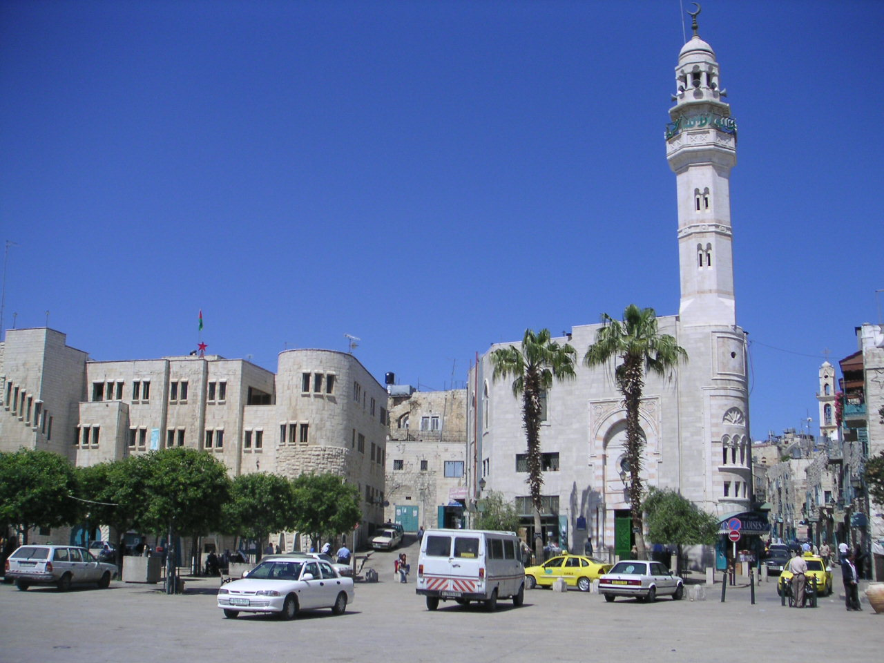 Photo: Soman